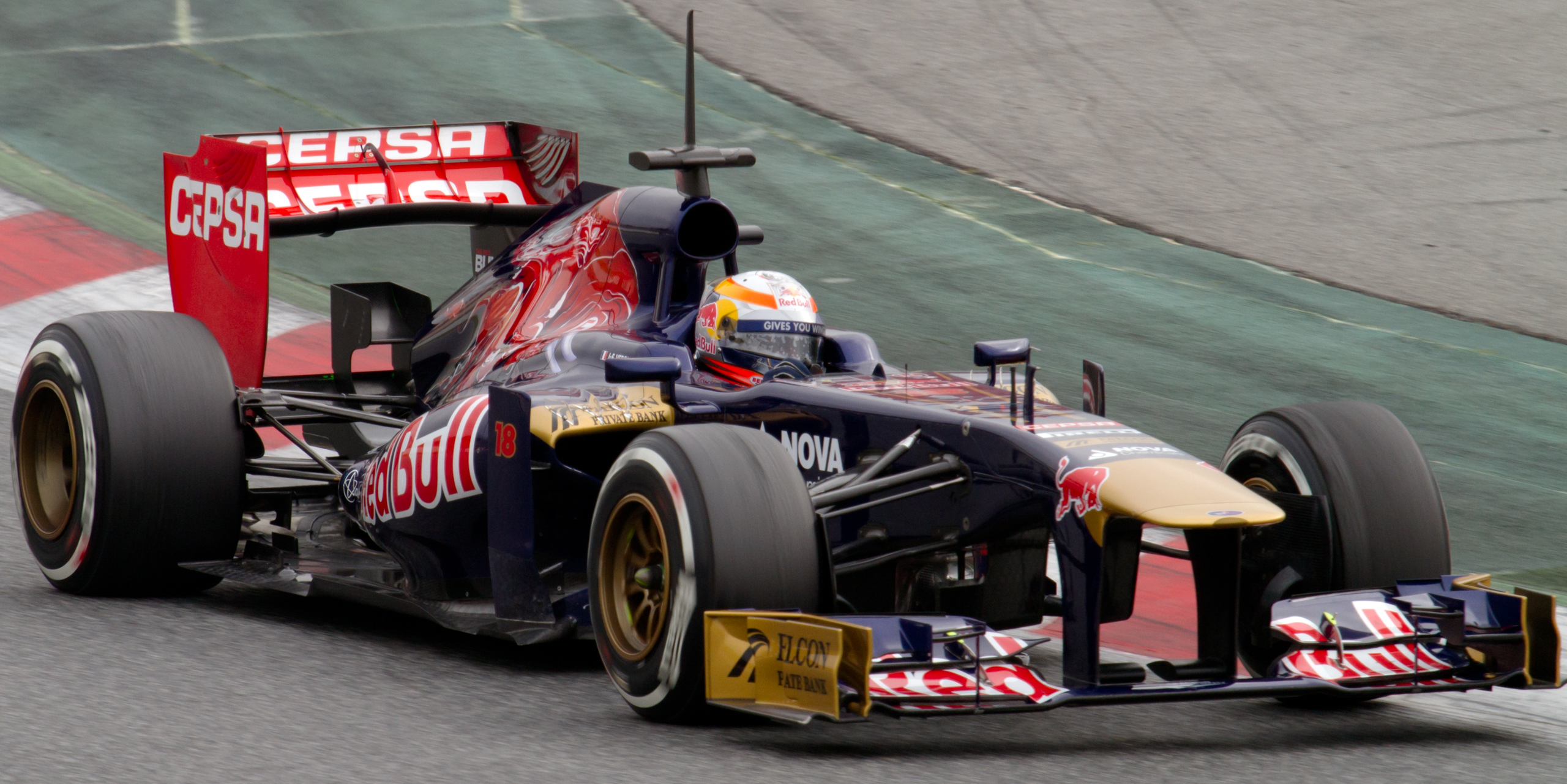 Formula One 2013 Catalonia test (19-22 February): Jean-Éric Vergne (Toro Rosso)